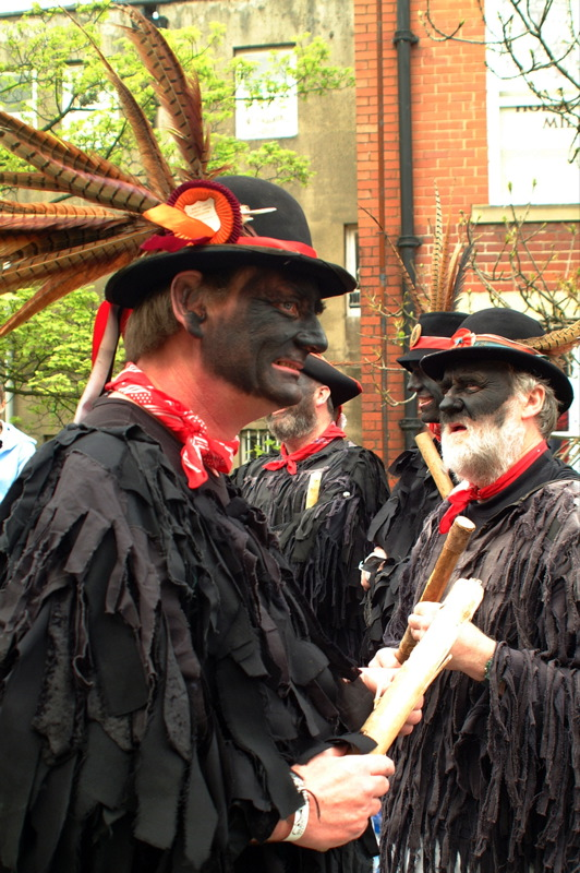 Traditional dance and customs